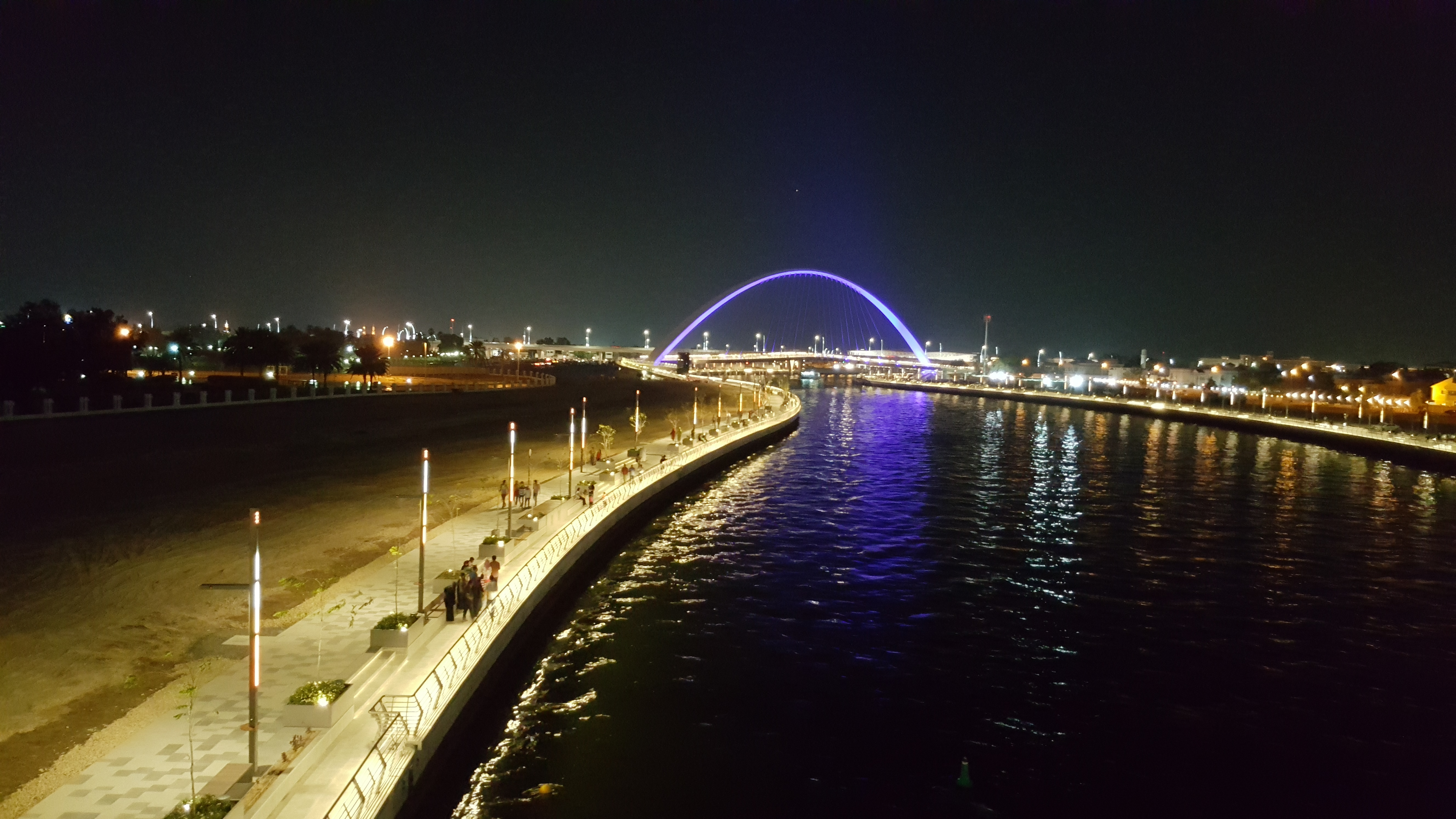 Dubai water canal night view